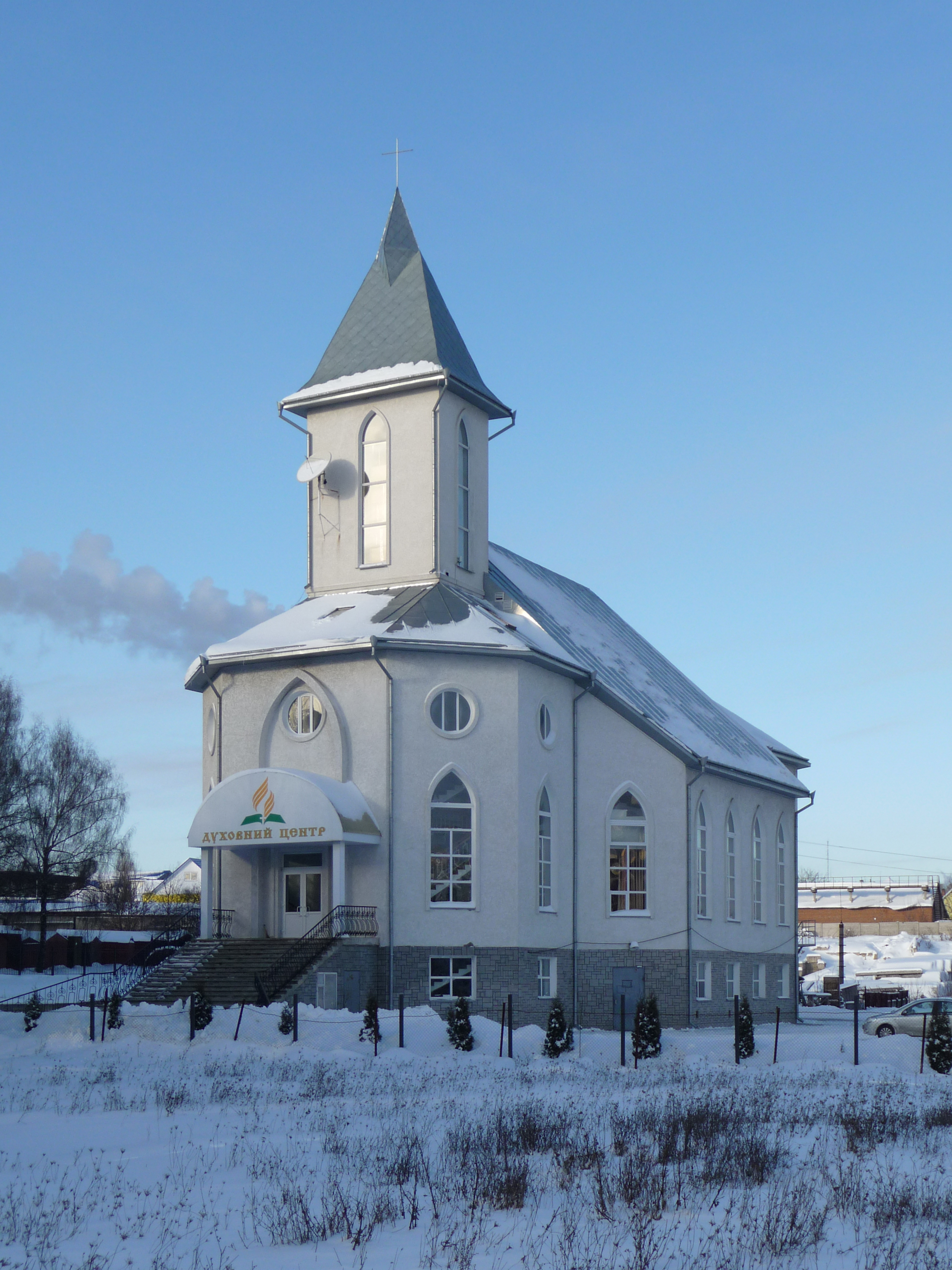 Seventh-day Adventist Church in Vinnitsa. Ukraine.